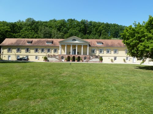 Picture of the Rotenfels Castle in Bad Rotenfels district of the city of Gaggenau, Rastatt District, Baden-Wurttemburg, Germany